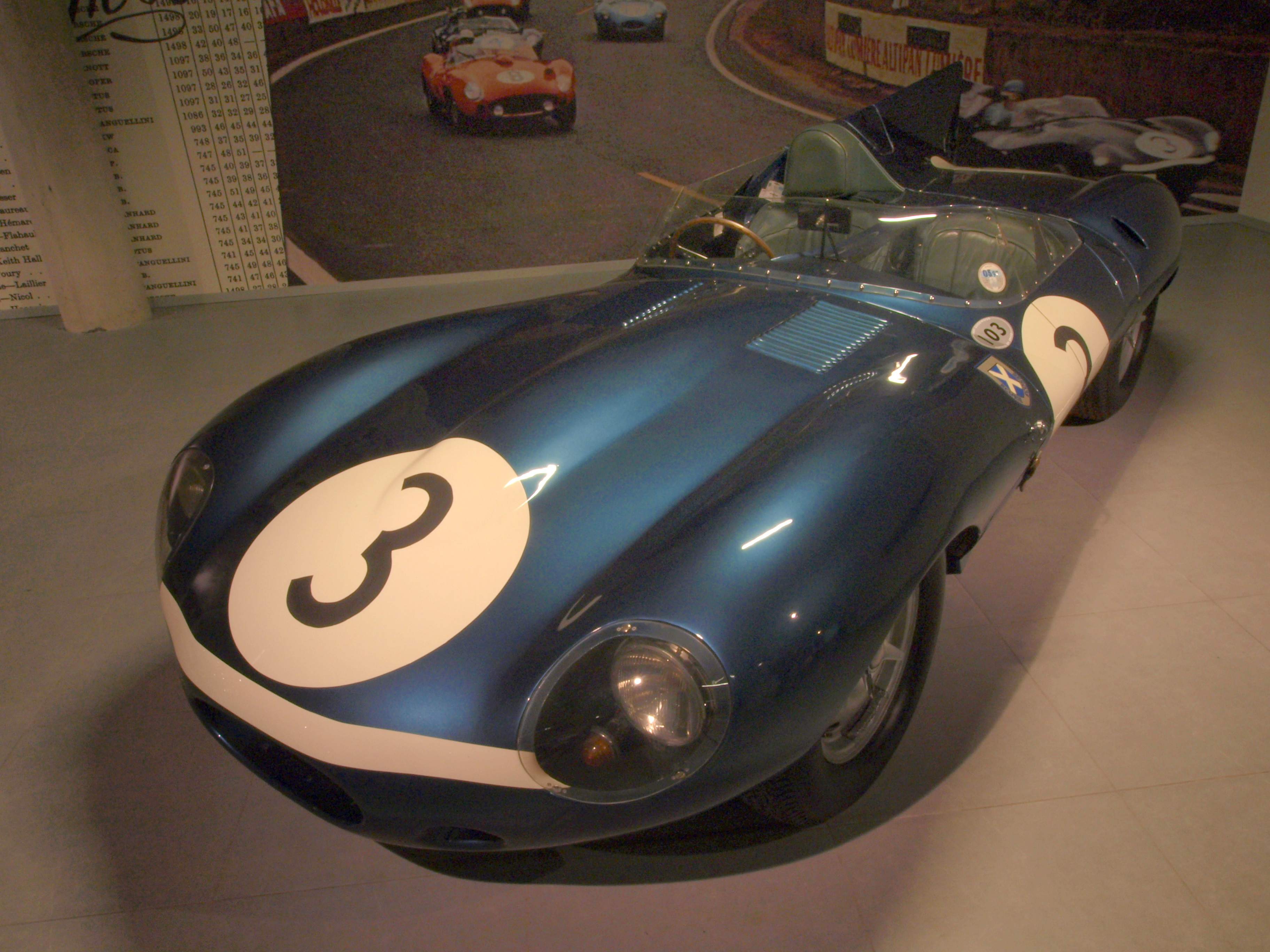 Photographed at the Louwman museum / Louwman Collection, The Netherlands.